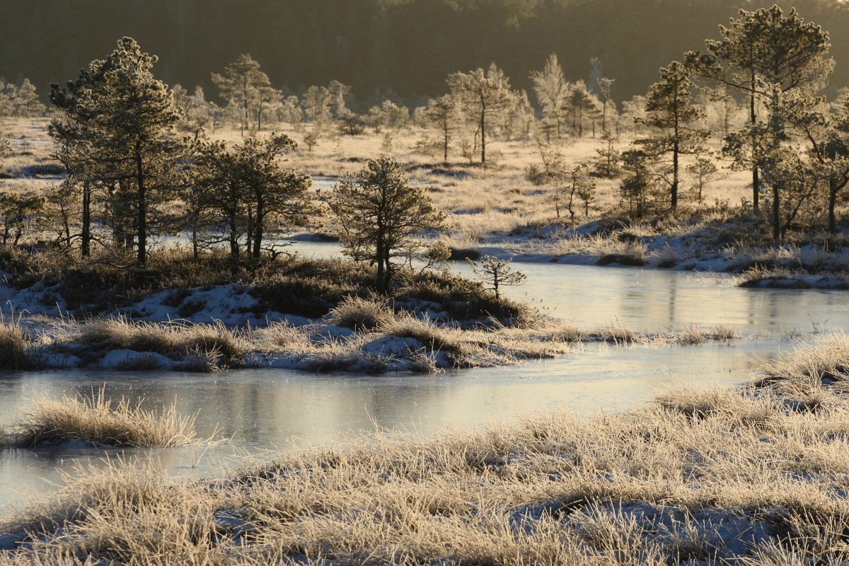 Riisa bog, Soomaa National Park, EstoniaEesti: Riisa raba laukad Soomaa rahvuspargis